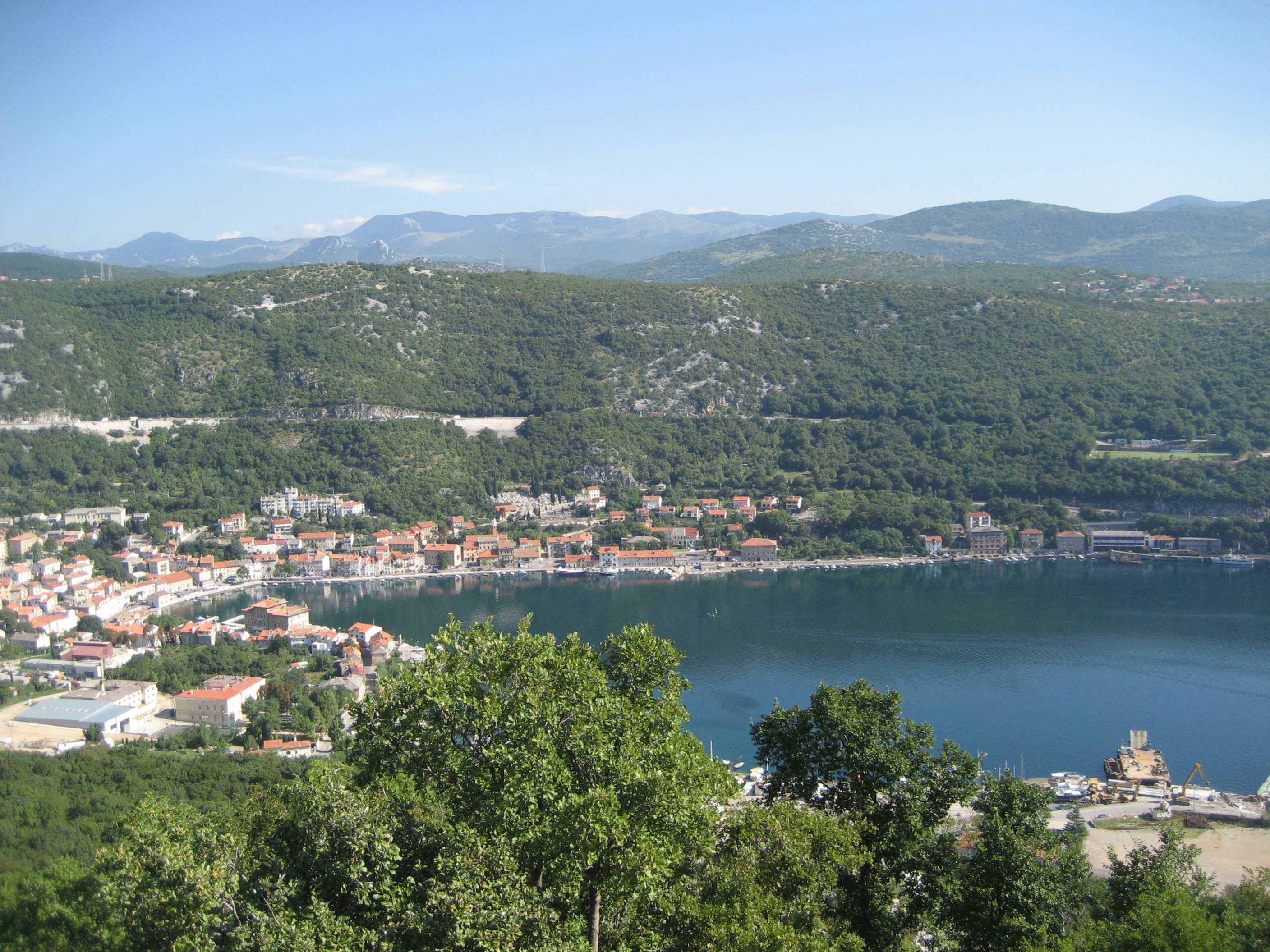 Bakarac, Adriatic Coast, Croatia